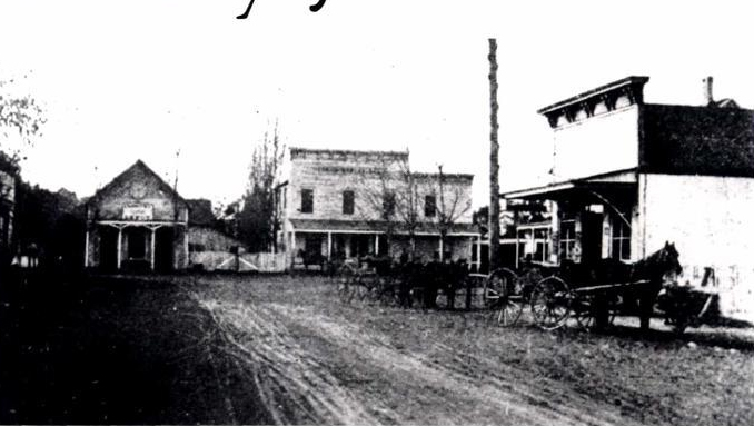 Site of the first county courthouse in Alameda County, California. Date unknown but surely before 1923.